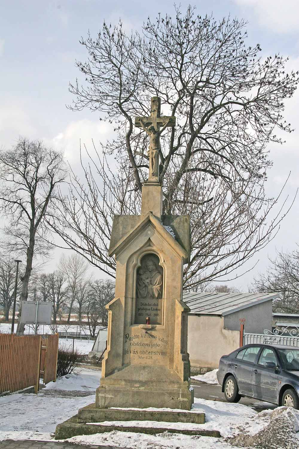 Gothic revival cross from 1884 in village of Dříteč, Pardubice District, Czech Republic